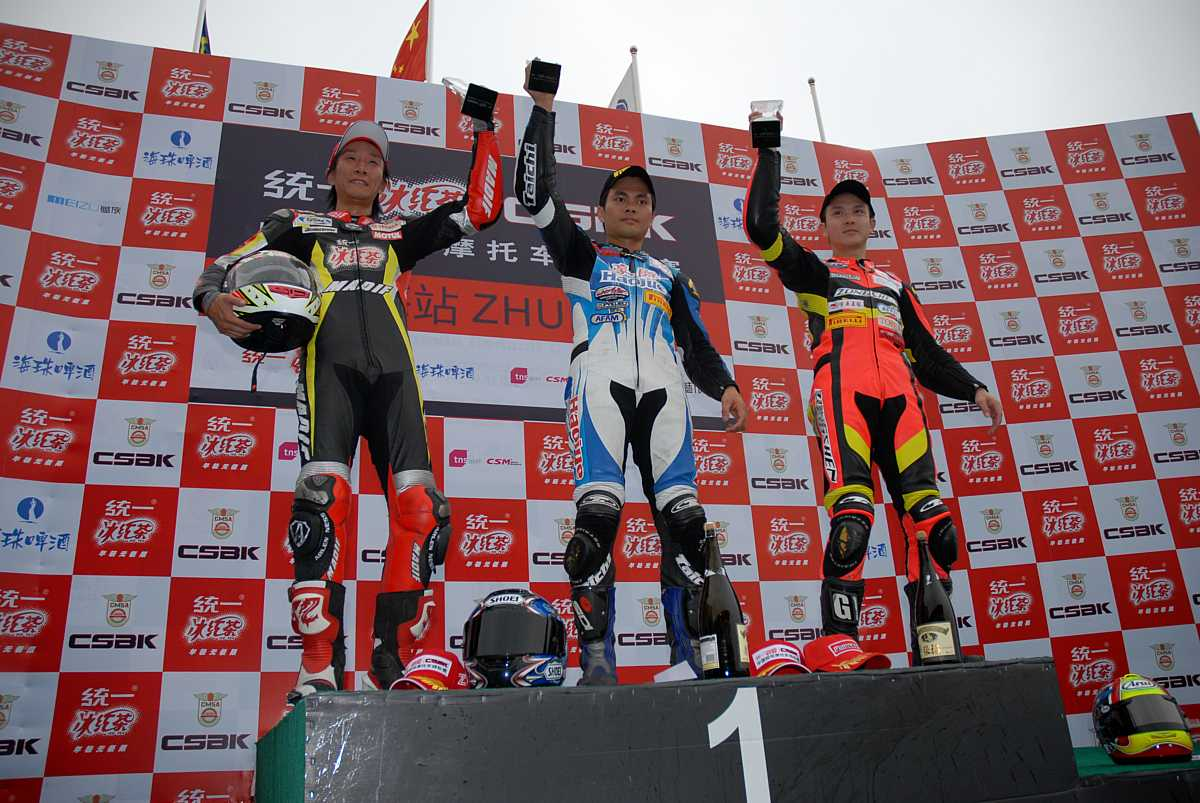 China Superbike Championship 600cc podium at Zhuhai International Circuit.